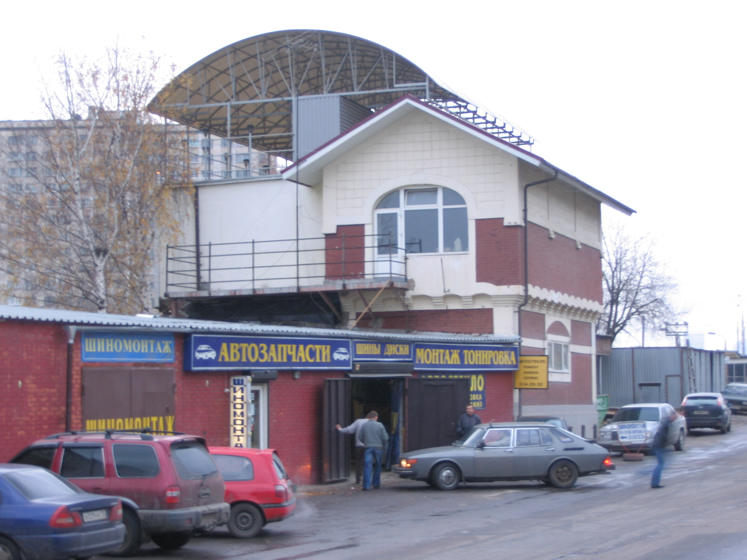 Kanatchikovo railway station in Moscow, Russia (rebuilt former centralization box)